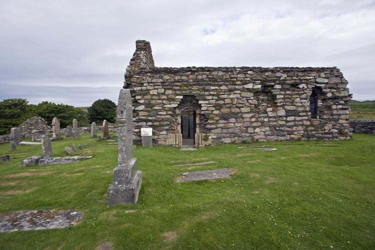 Author: Antony McCallum Kilmory medieval Chapel